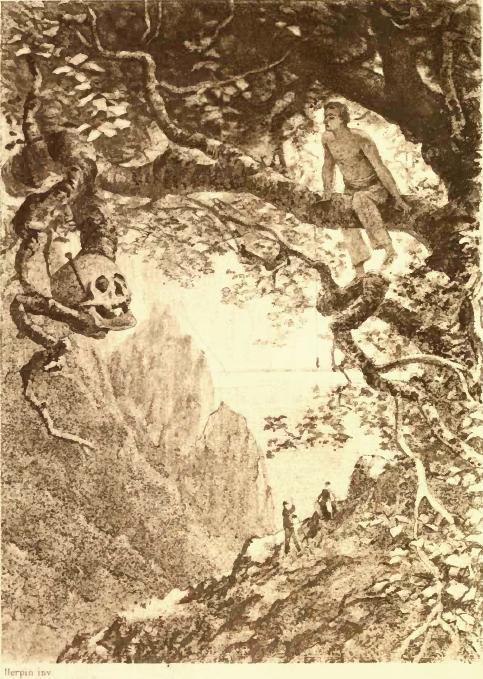 Illustration by "Herpin" for Poe's short story The Gold-Bug for an 1895 edition published in Philadelphia by George Barrie, The Tales and Poems.